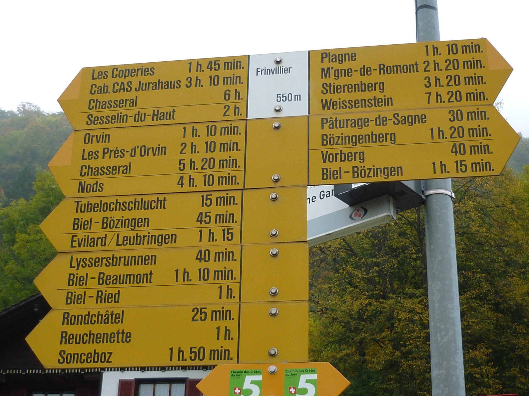 Fingerpost at Frinvillier, Bernese Jura, Switzerland